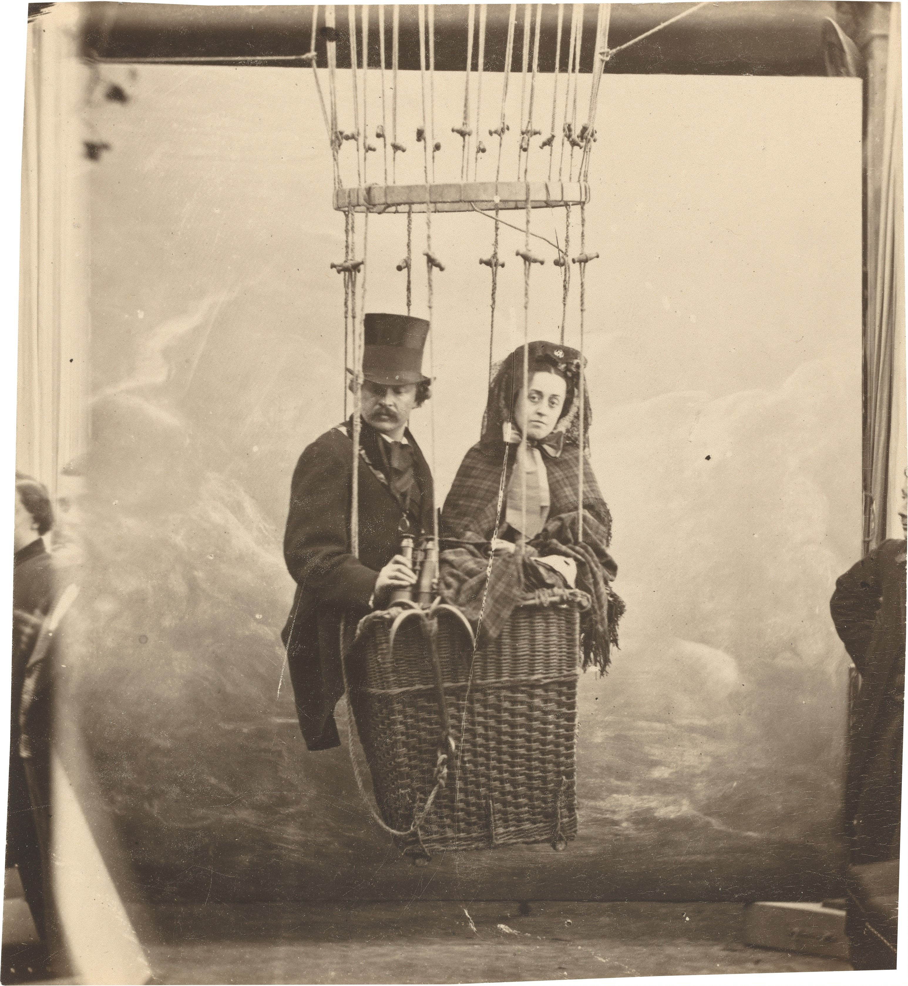 Self-Portrait with Wife Ernestine in a Balloon Gondola